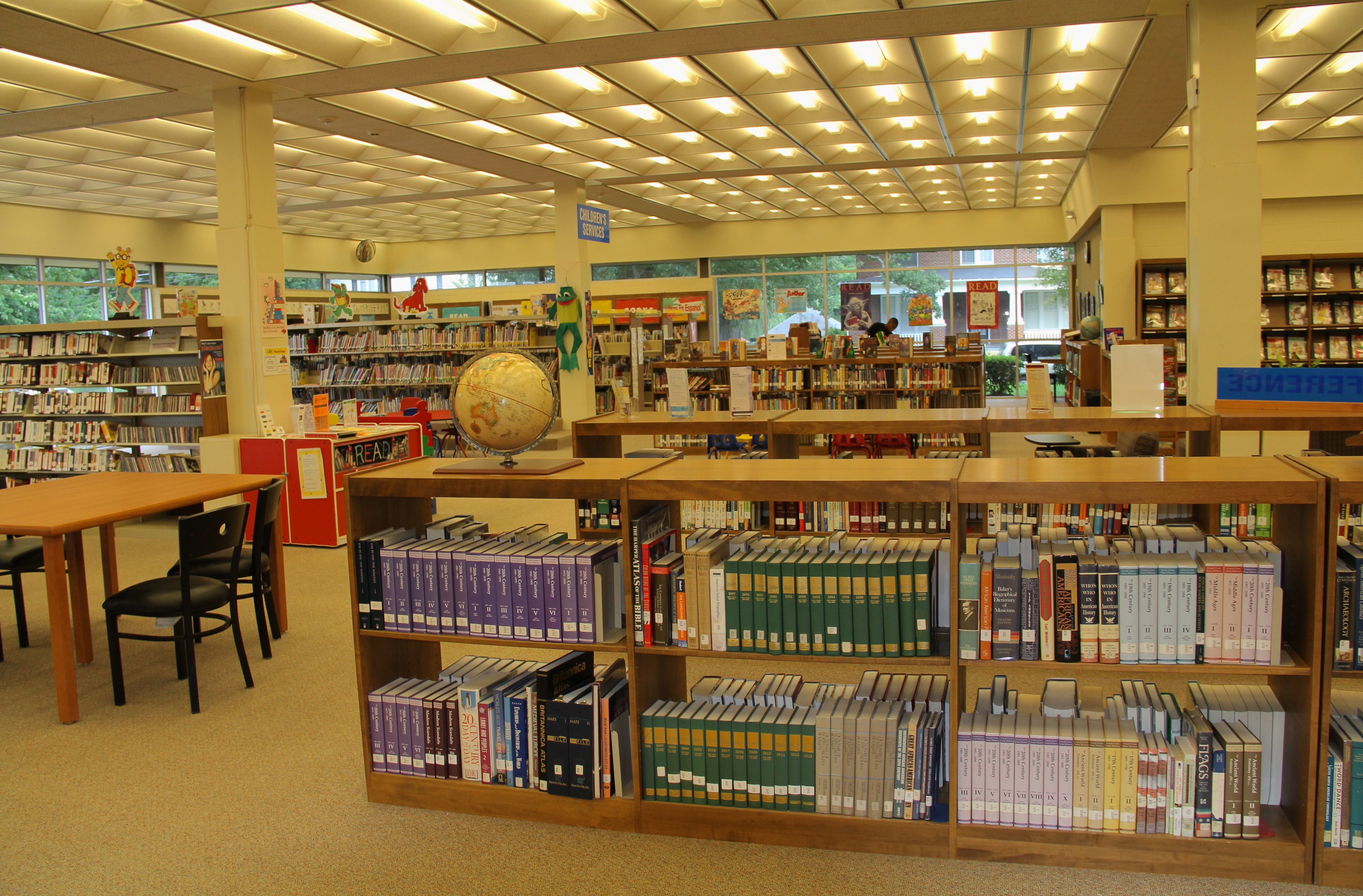 Person County Public Library reading room This image was uploaded as part of Wikipedia Summer of Monuments. English |+/−